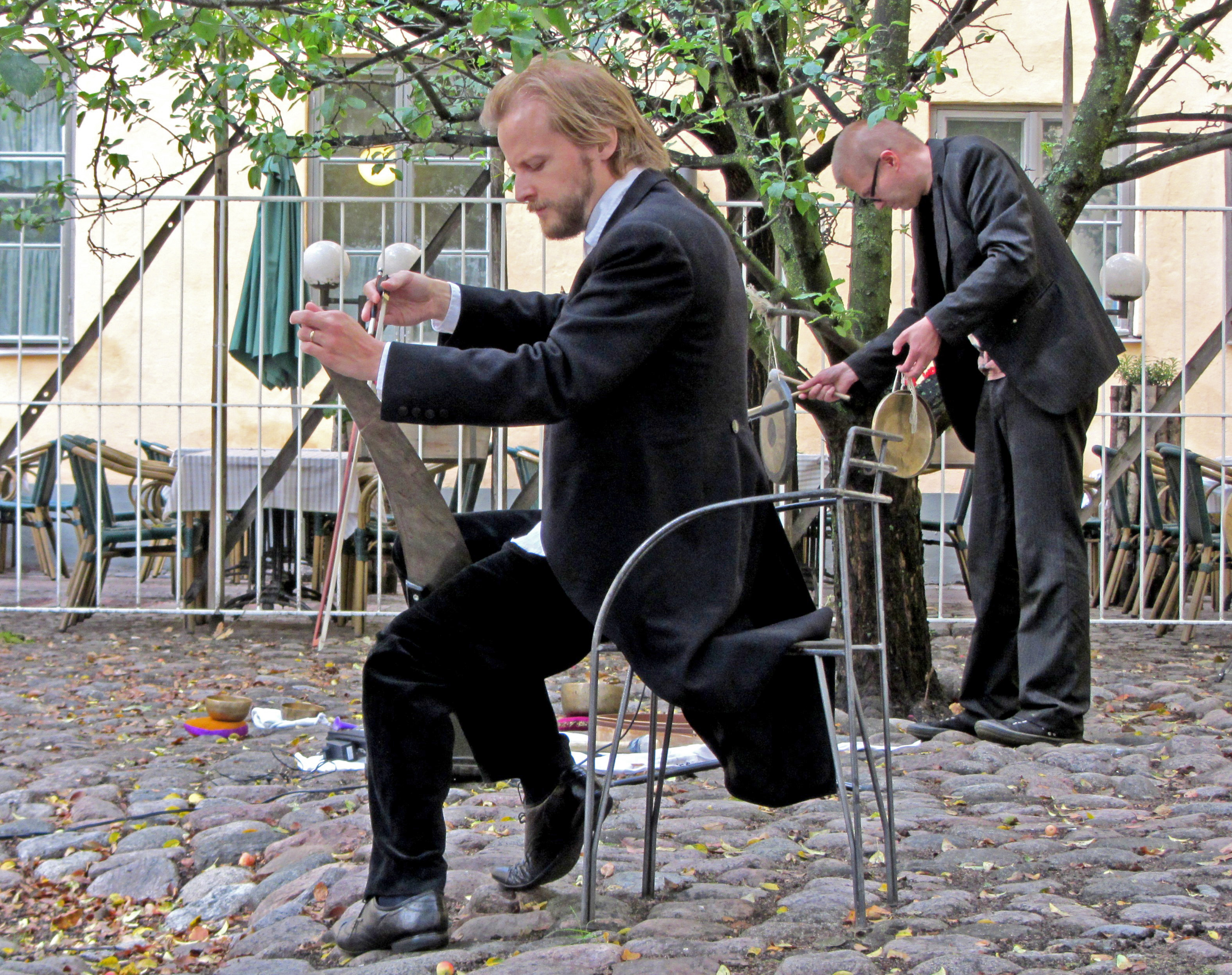 Sawplayer accompanied by gongs performing on the Night of The Arts in Helsinki 2012